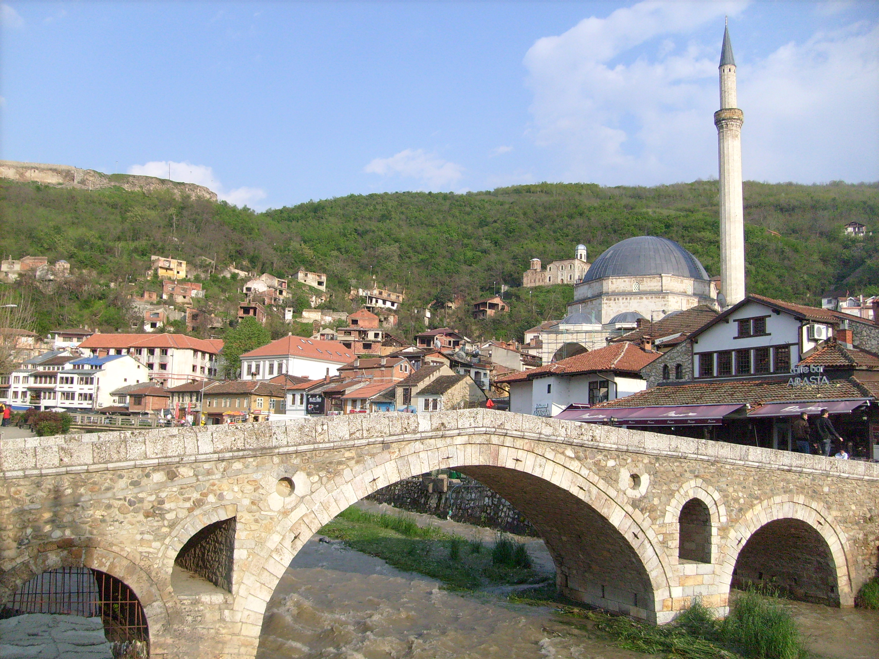 Prizren city and its stone bridge. (Prizren / Kosovo)